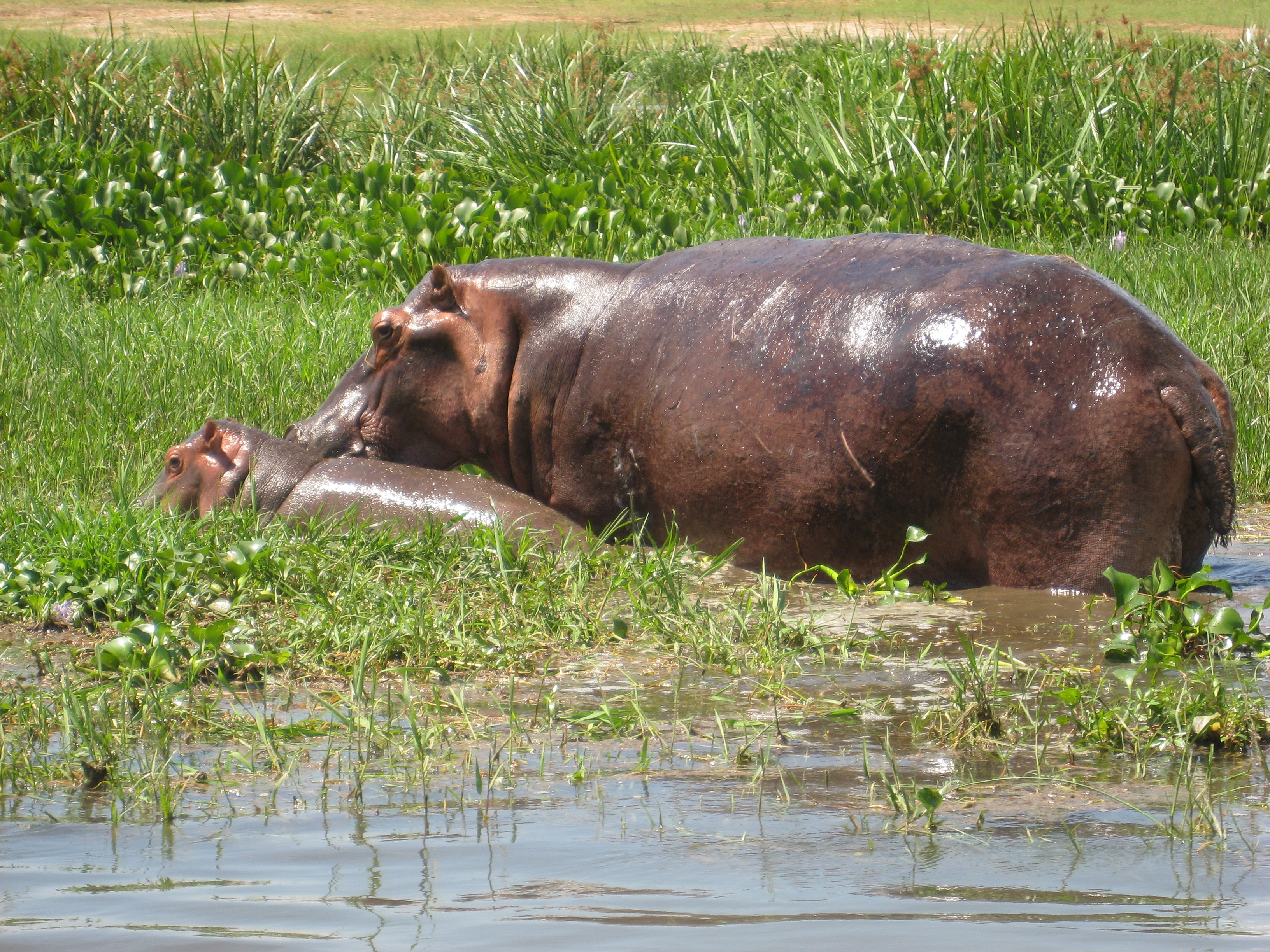 A closer shot of mama and baby.